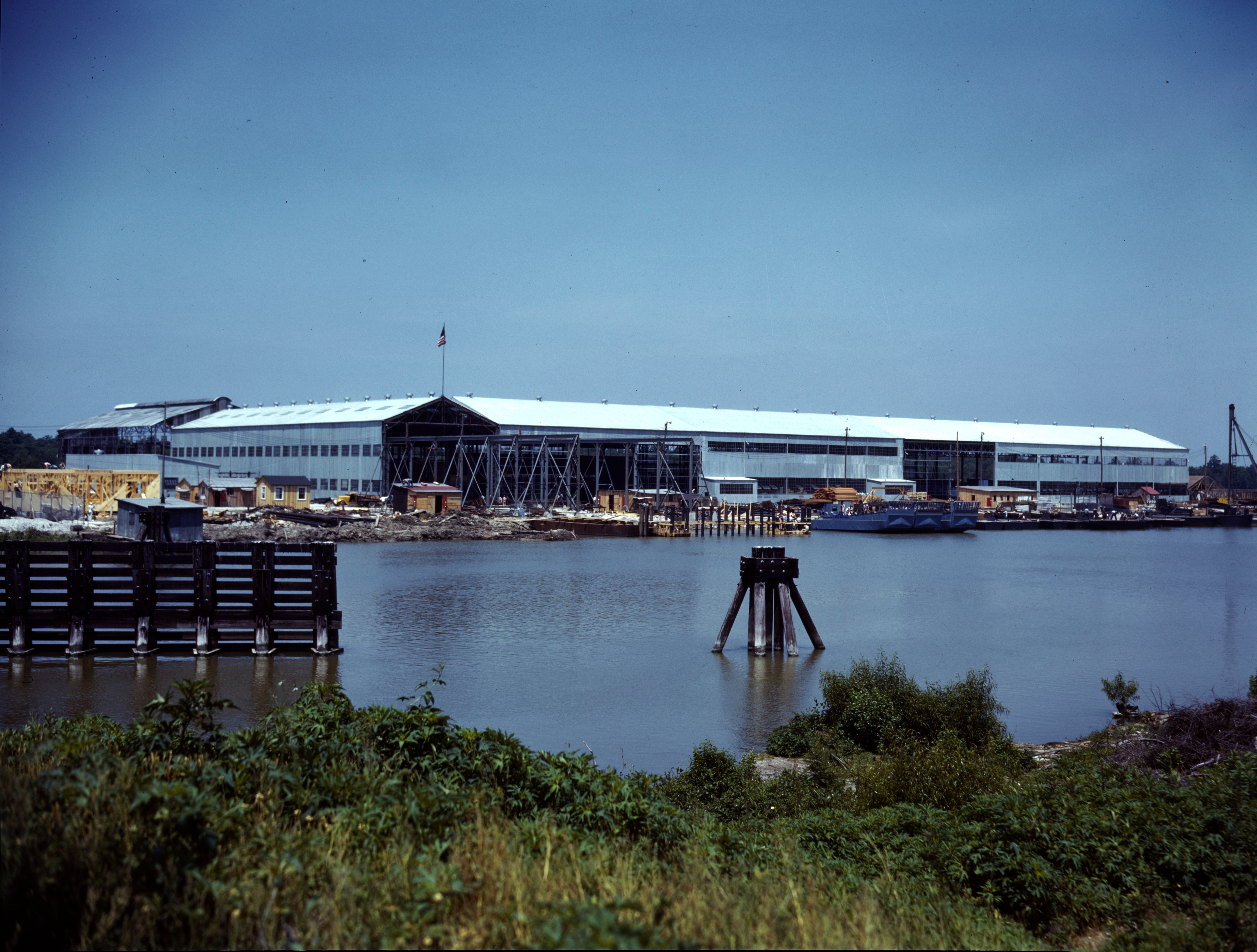 Higgins Industries, Inc., New Orleans, La., makes torpedo boats and other boats for the Navy